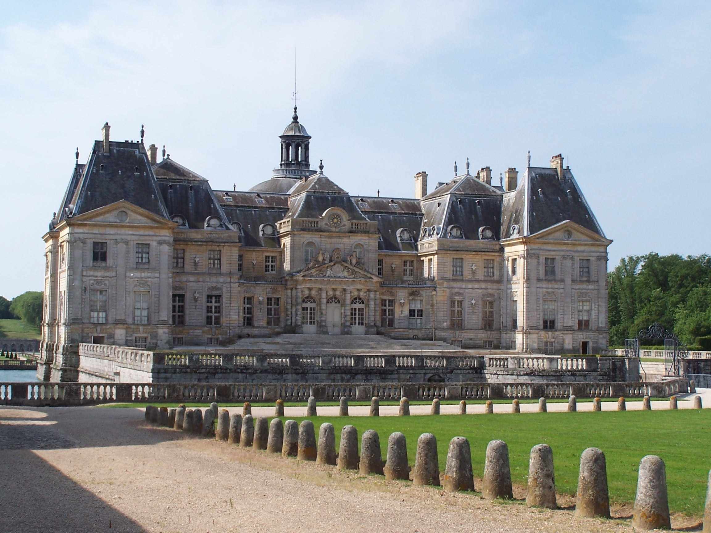 Castle of Vaux-le-Vicomte, France